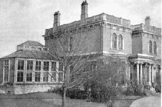 This is a picture of Alperton Hall Mansion purchased in 1921 to be utilised as a school.